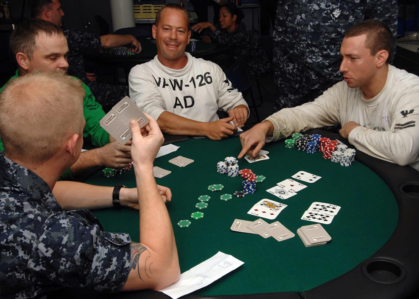 ATLANTIC OCEAN (June 20, 2009) Sailors assigned to the aircraft carrier USS Harry S. Truman (CVN 75) and Carrier Air Wing (CVW) 3 compete in a Texas Hold 'Em Poker tournament aboard Harry S. Truman. The tournament is sponsored by the Harry S. Truman Morale, Welfare and Recreation department. Harry S. Truman is underway in the Atlantic Ocean conducting a Composite Training Unit Exercise. (U.S. Navy photo by Mass Communication Specialist Seaman David Finley/Released)